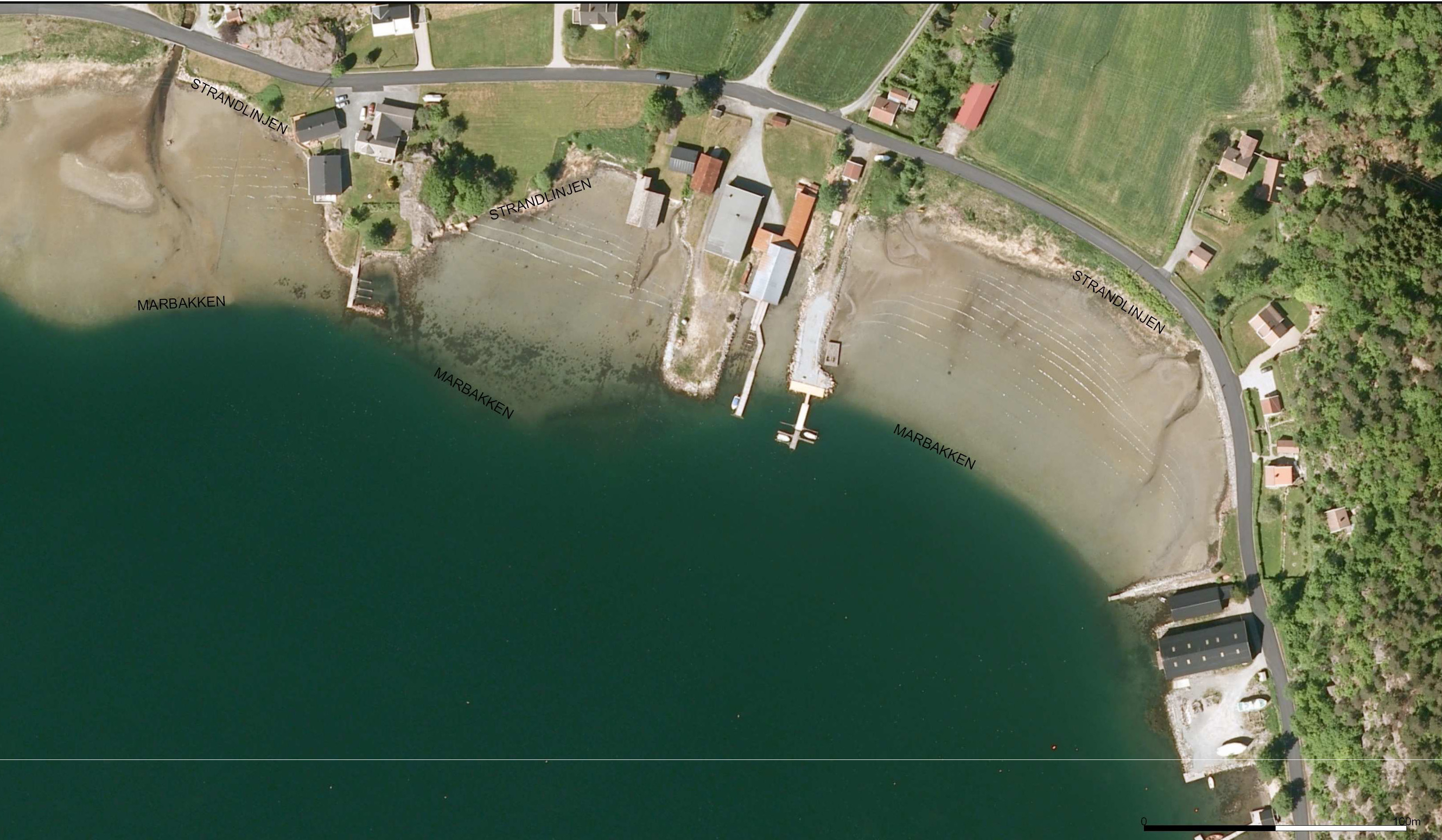 Marbakke - illustration